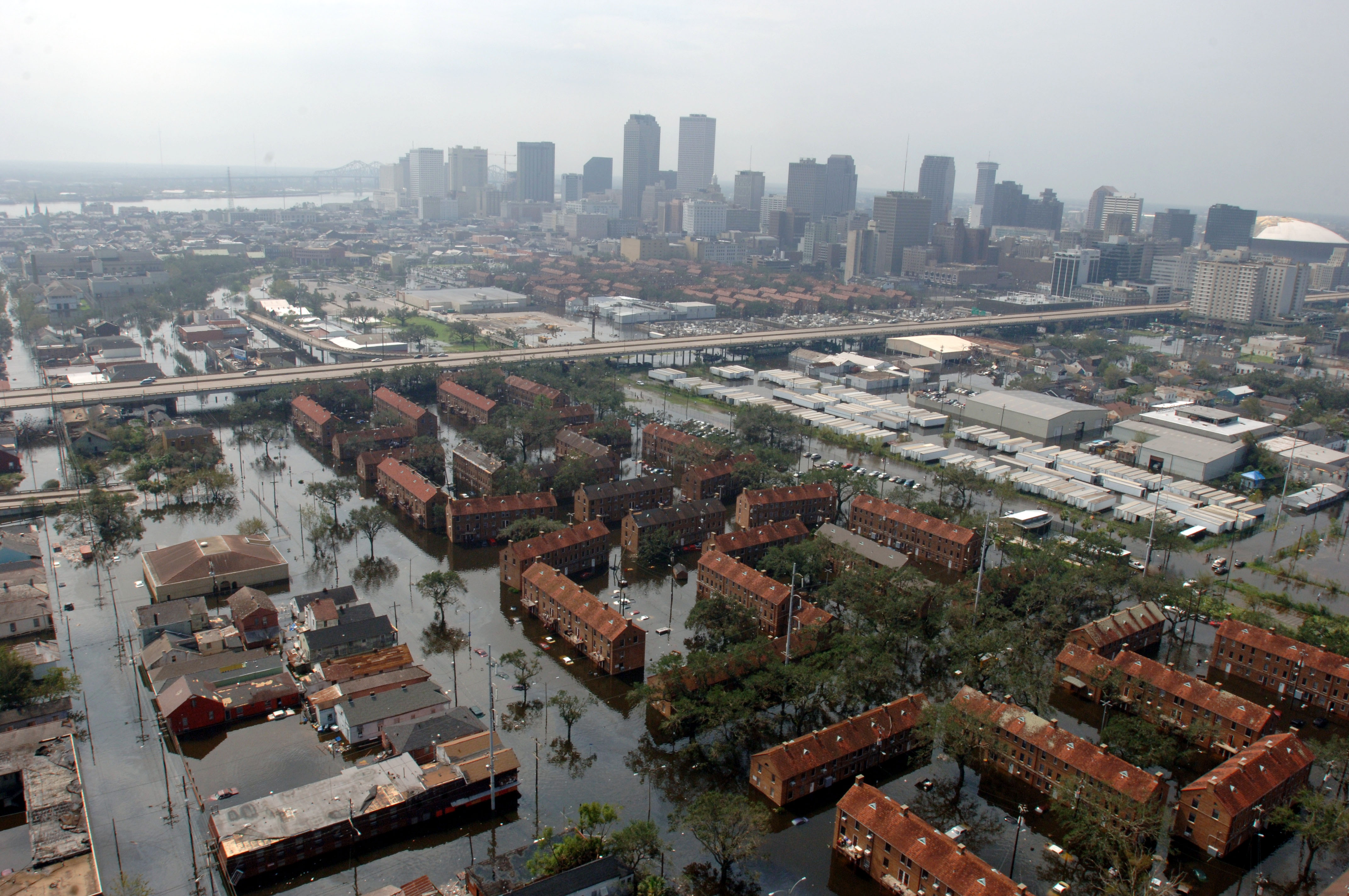 New Orleans, La. August 30, 2005 --Aerial view of New Orleans and the surrounding area showing the flood waters and damage caused from Hurricane Katrina. New Orleans continues to be evacuated as a result of floods caused by failures of the Federal levee system. Photo by Jocelyn Augustino/FEMA